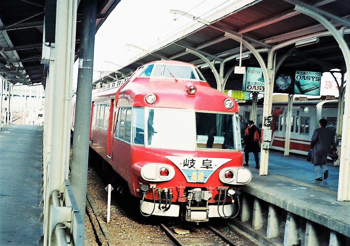 A Meitetsu 7000 series EMU at Toyohashi Station